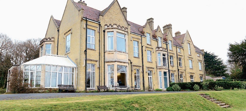 Spring Hill House, as a convent, in East Cowes, Isle of Wight.